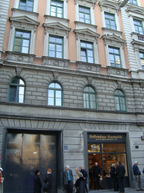 This is a photograph of an architectural monument.